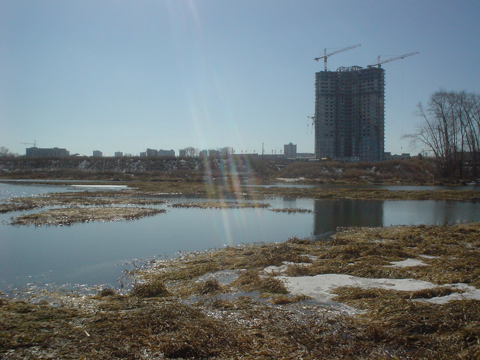 Place of future bridge Kashirynyh-Engelsa, view on West ray district, Chelyabinsk, Russia